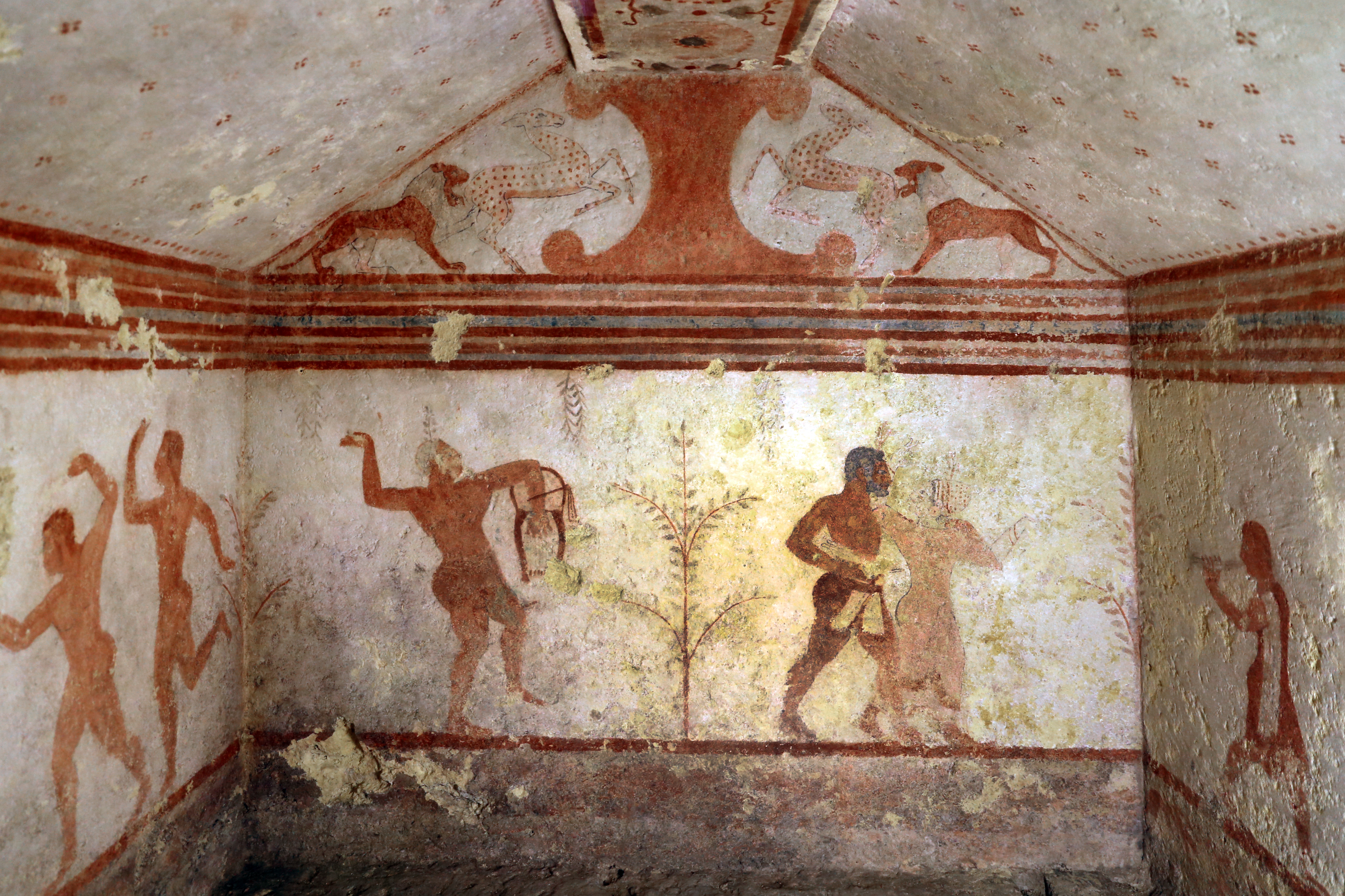 Necropoli dei Monterozzi (Tarquinia)